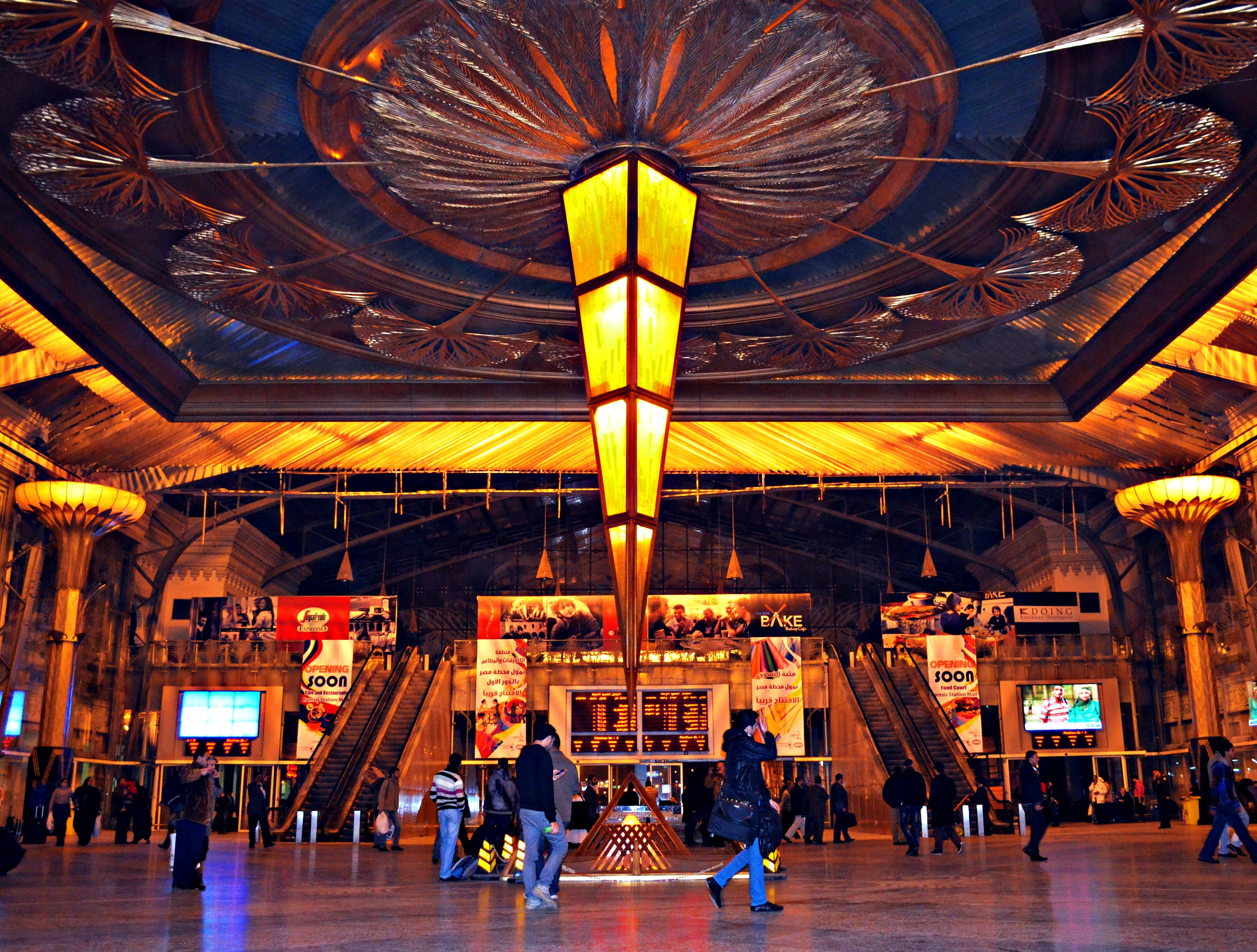 Ramses Station at night, Cairo